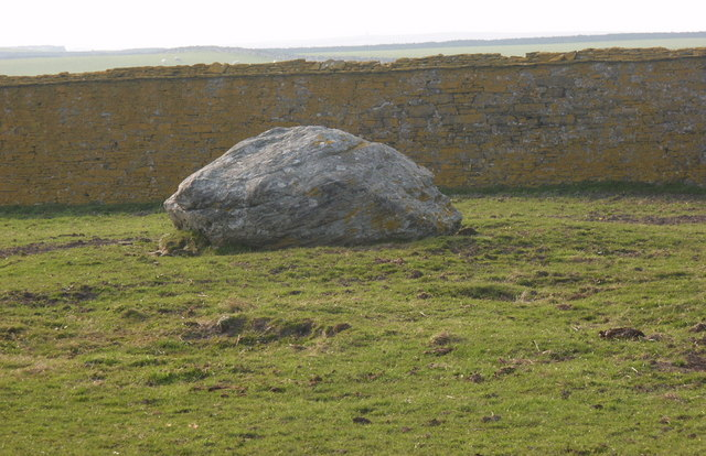 Erratic (The Saville Stone), Scar, Sanday A fairly unique erratic, in that the last mile of its journey was by cart, not ice. It was being moved to the mansion of Scar farmhouse, when the cart collapsed underneath it. It's still underneath!